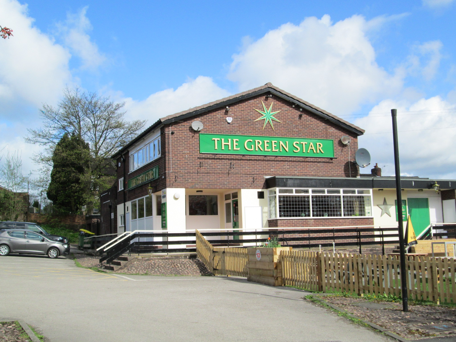 The Green Star, a pub in Smallthorne, Stoke-on-Trent. Viewed from Esperanto Way.